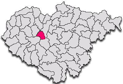 Map Salaj County Romania